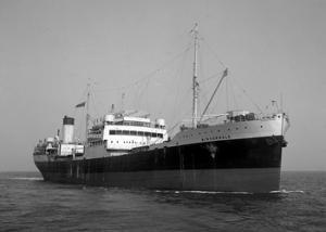 RFA BISHOPDALE underway